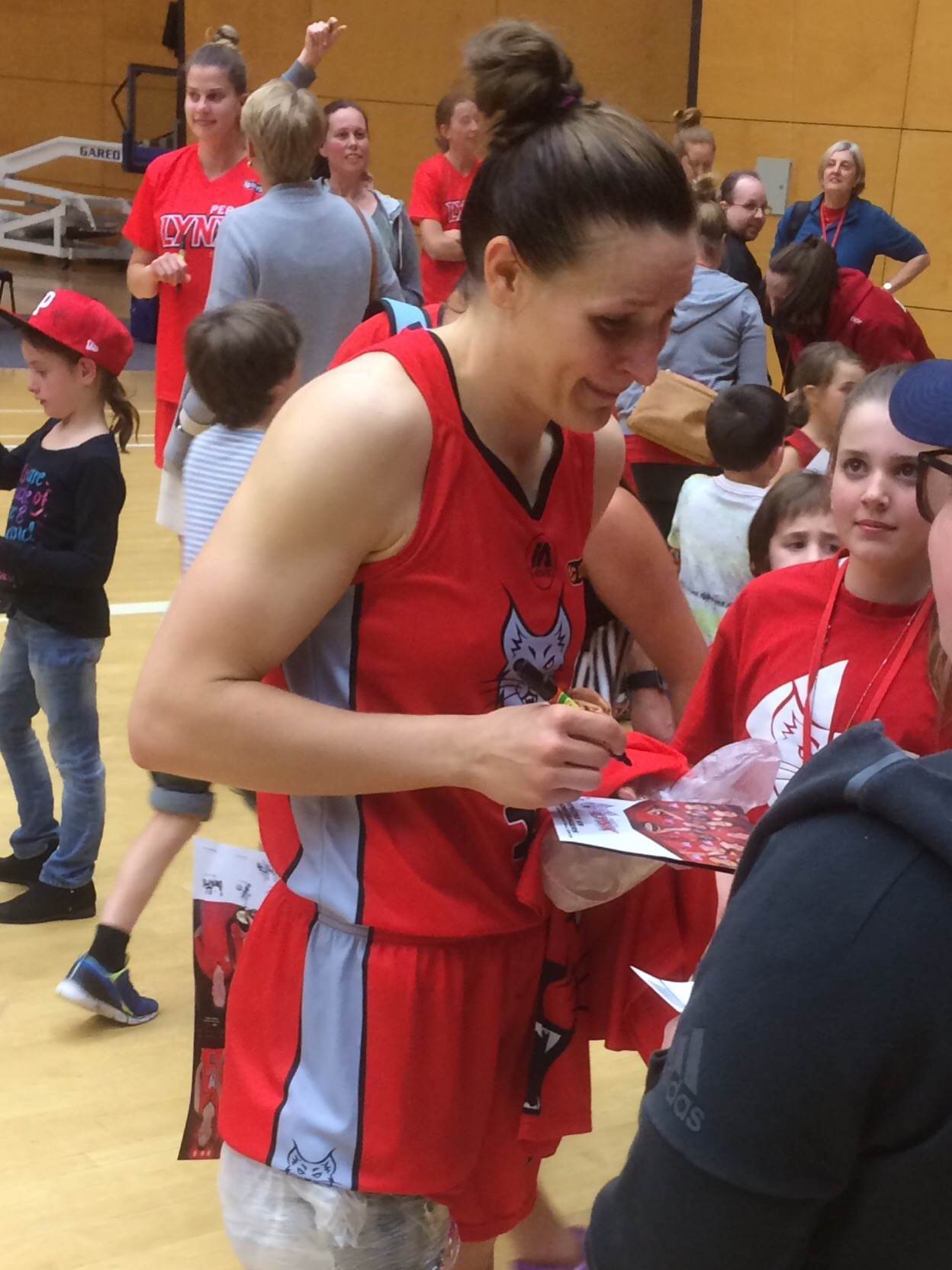 Alison Schwagmeyer following her debut for the Perth Lynx